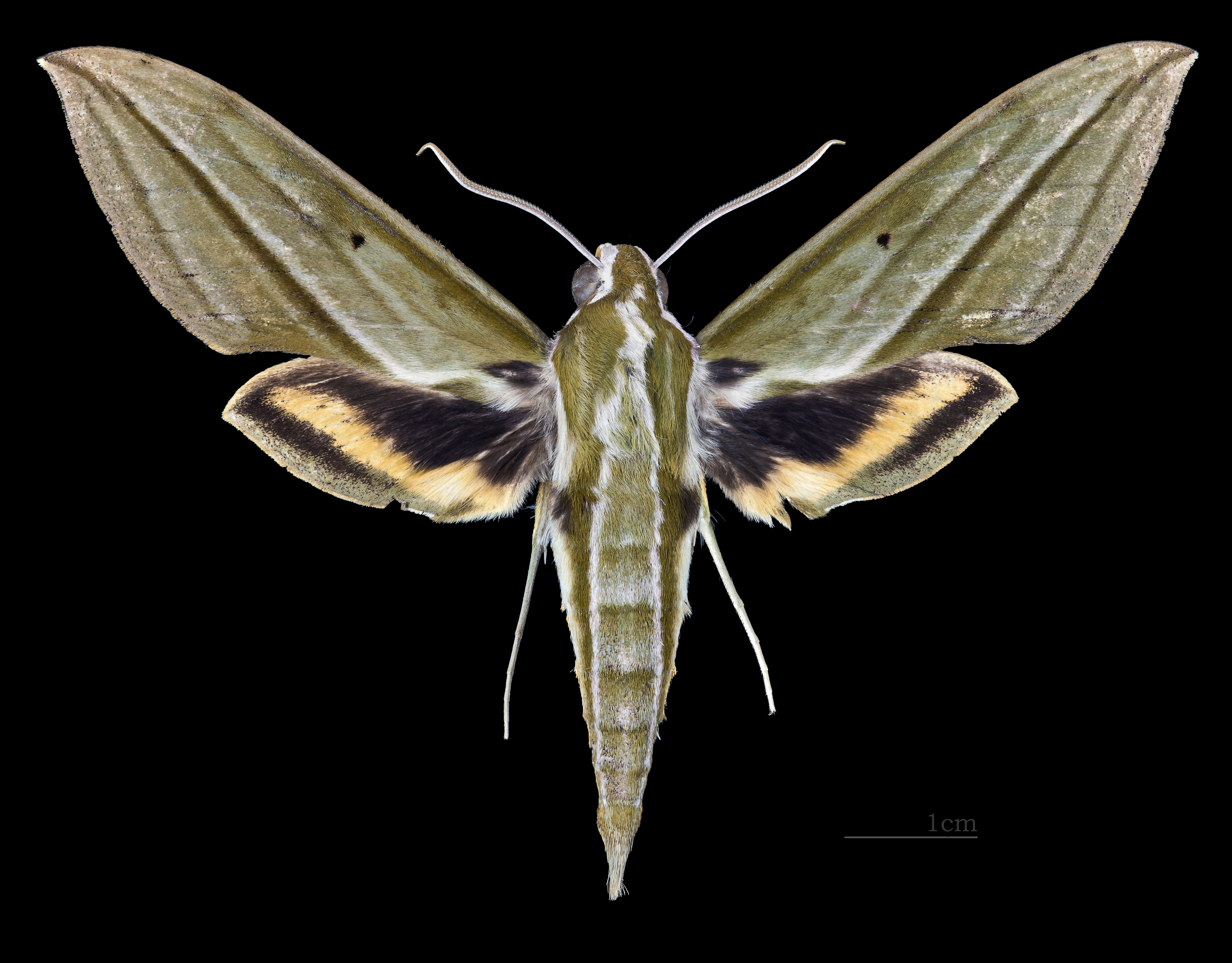 Cechenena pollux - Dorsal side Collection of the Mathematician Laurent Schwartz